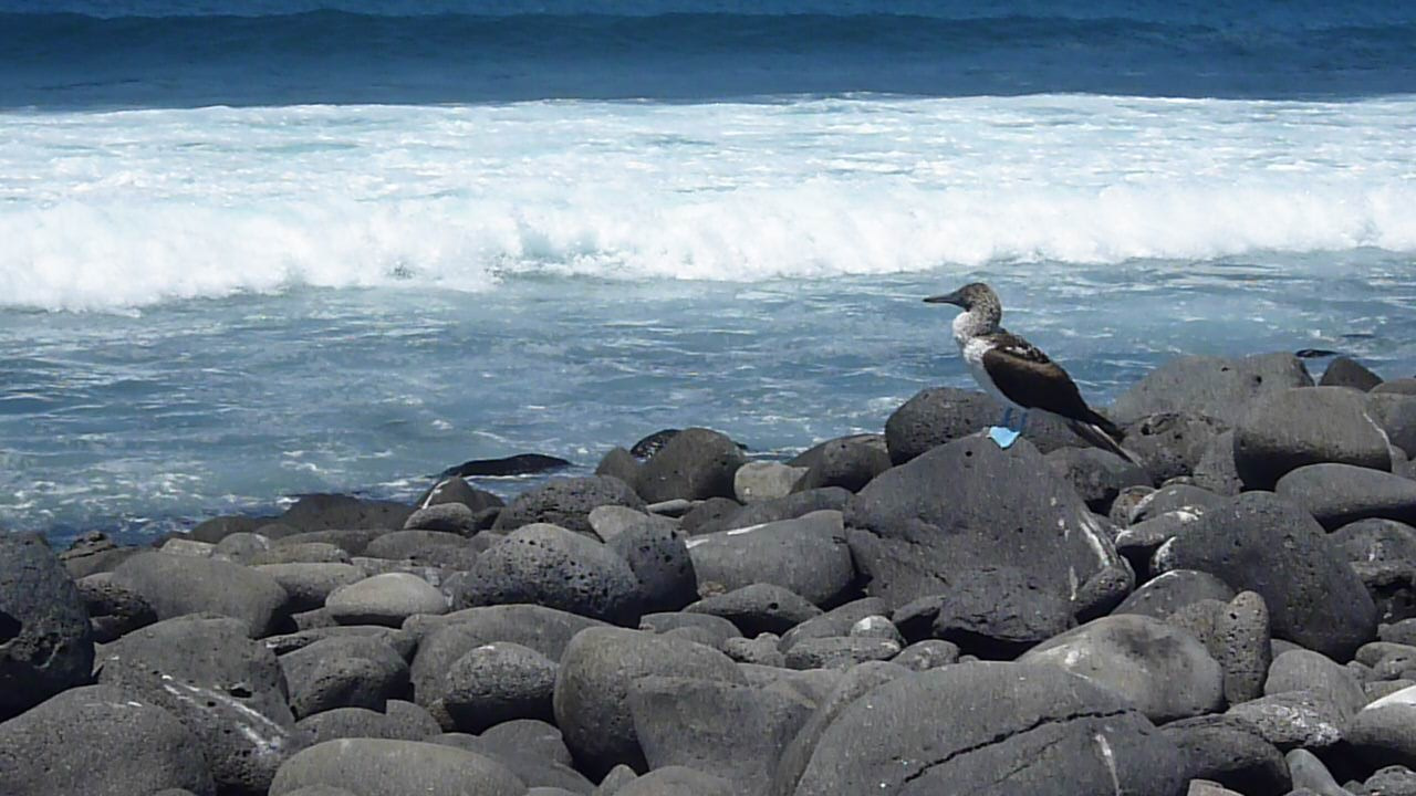 Blue footed Booby on North Seymour Island in the Galapagos